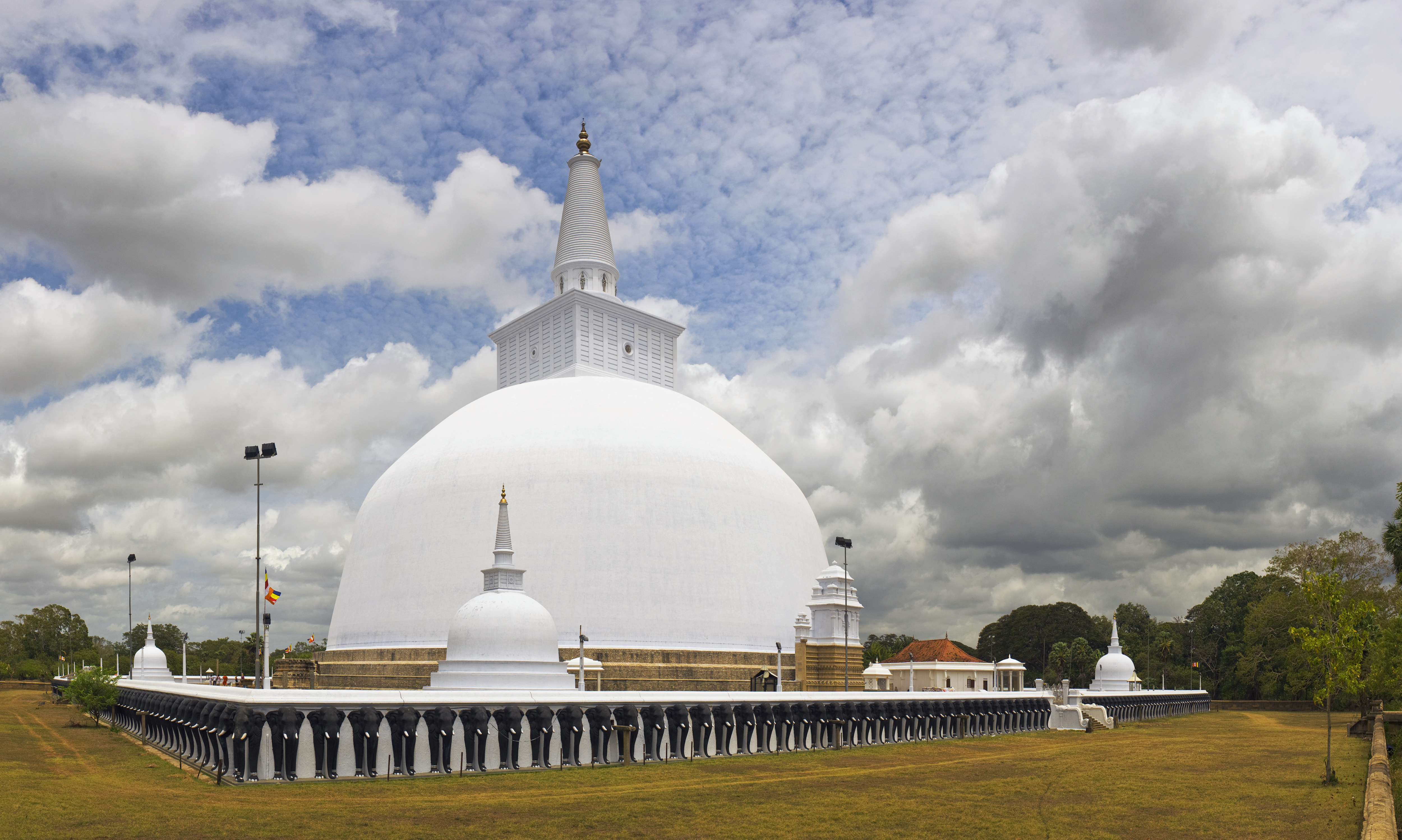 The Ruwanweli Saya dagoba in Anuradhapura